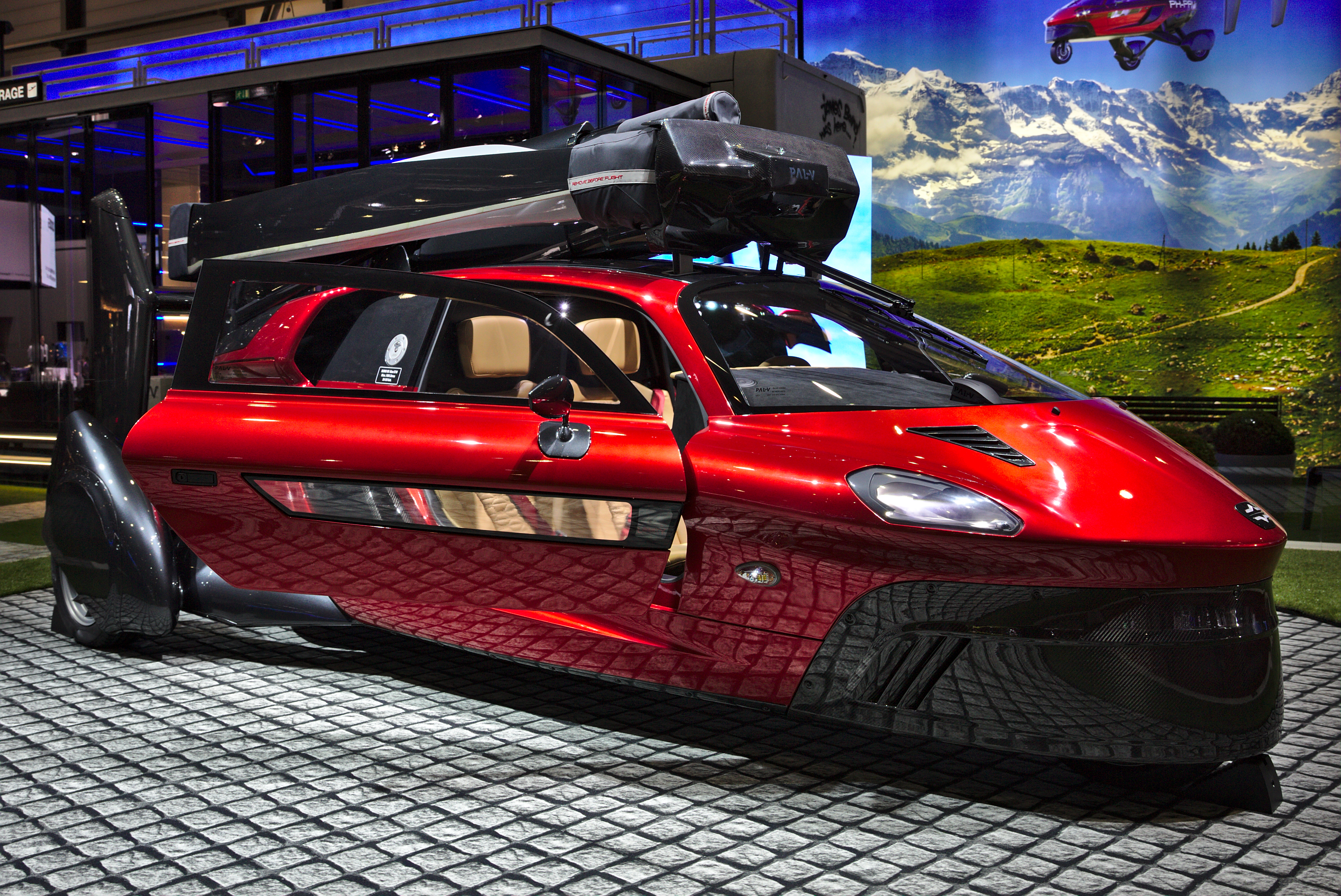 Pal-V at Geneva Motorshow 2018